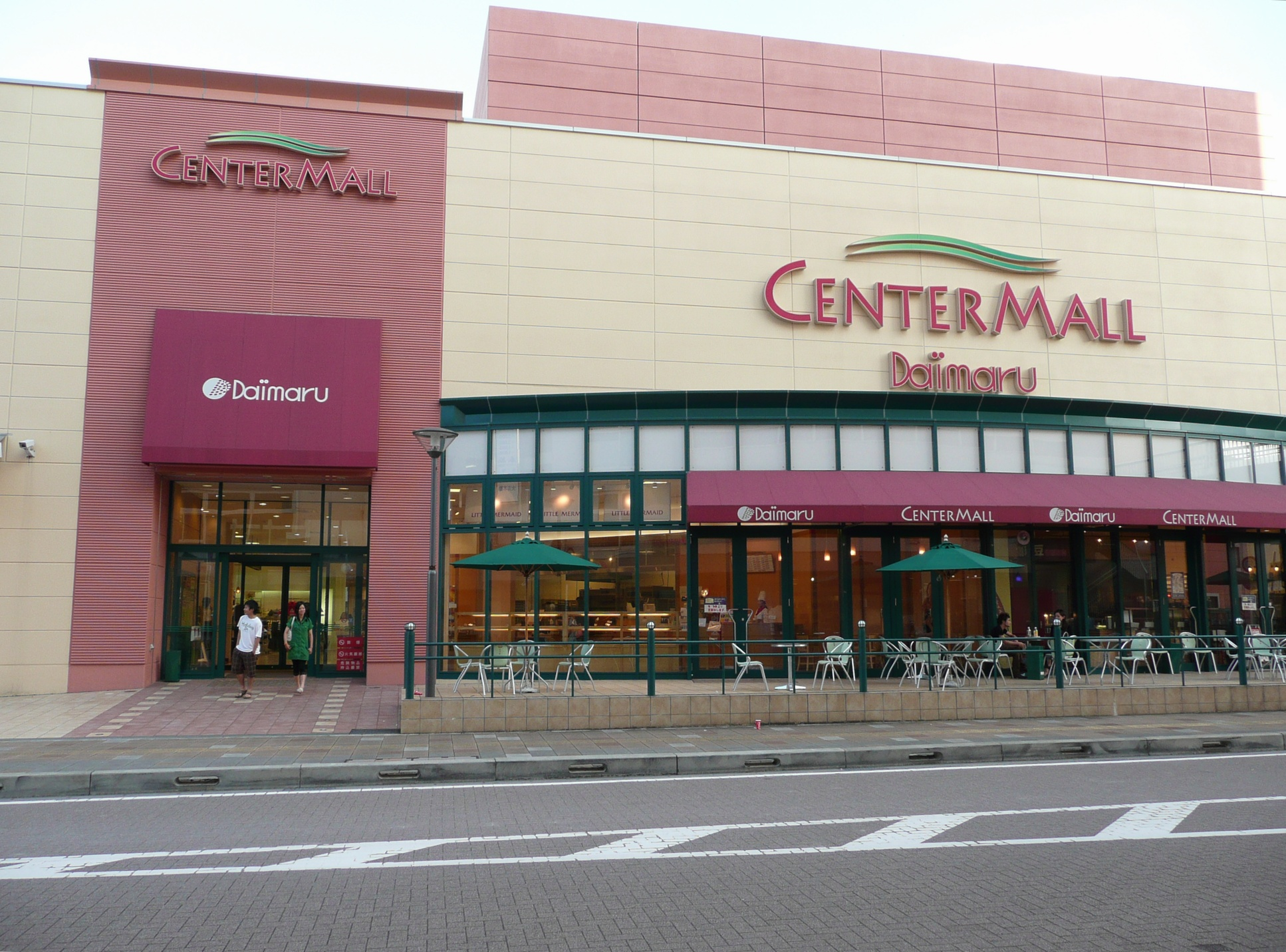 Miyakonojo Daimaru Center Mall on 2007. Present Miyakonojo City Library (Naka-machi, Miyakonojo City, Miyazaki, Japan)